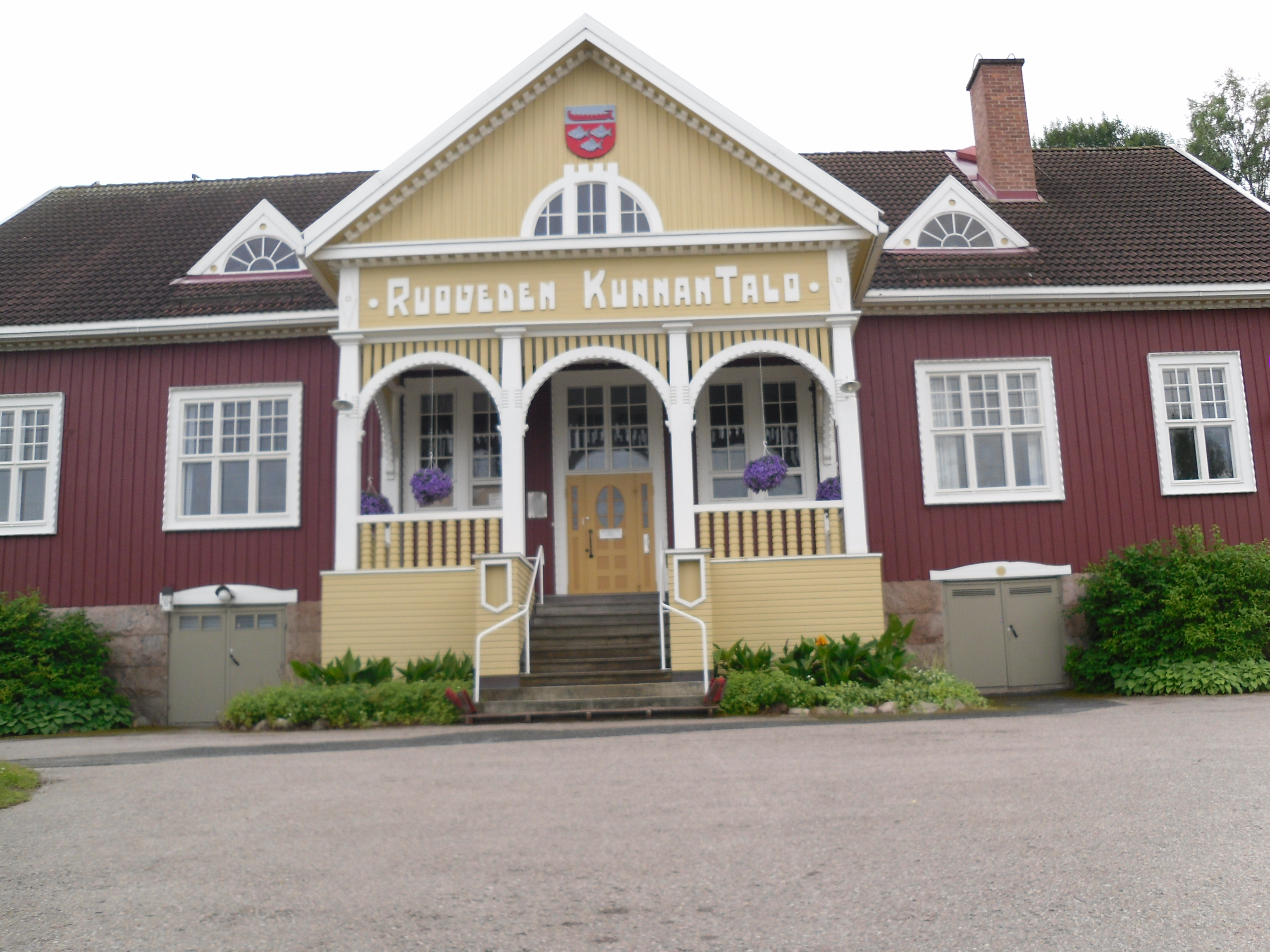 Ruovesi city hall